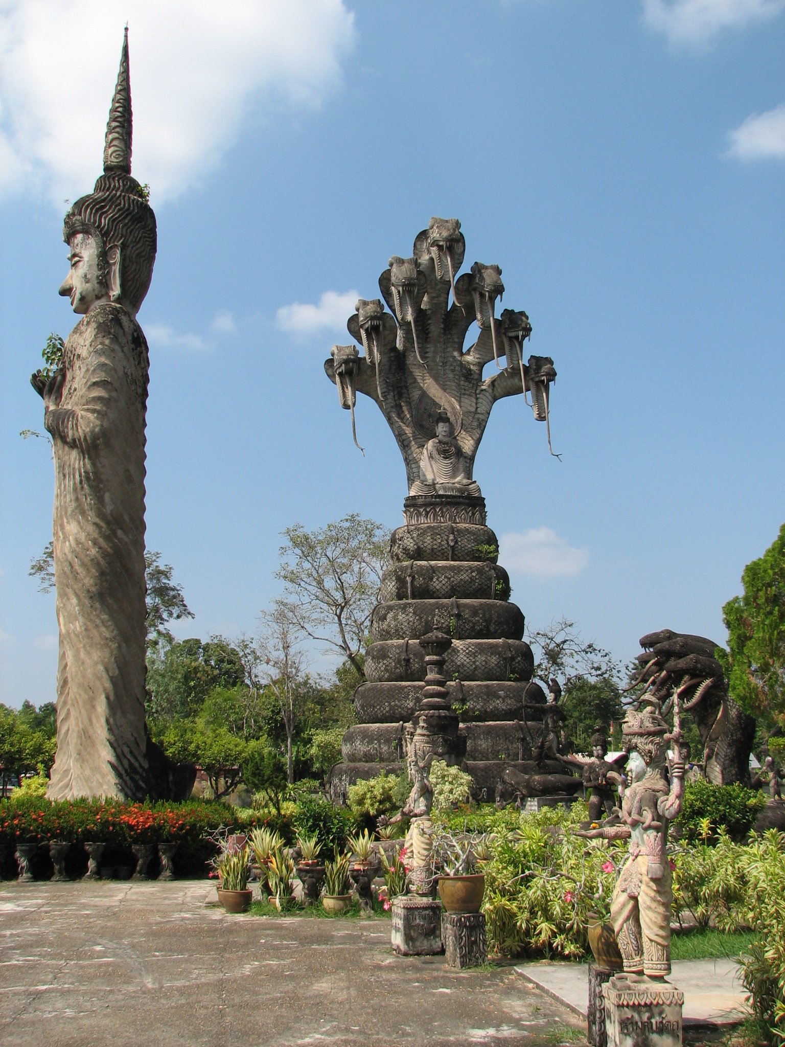 Sculpture Garden at Nong Khai